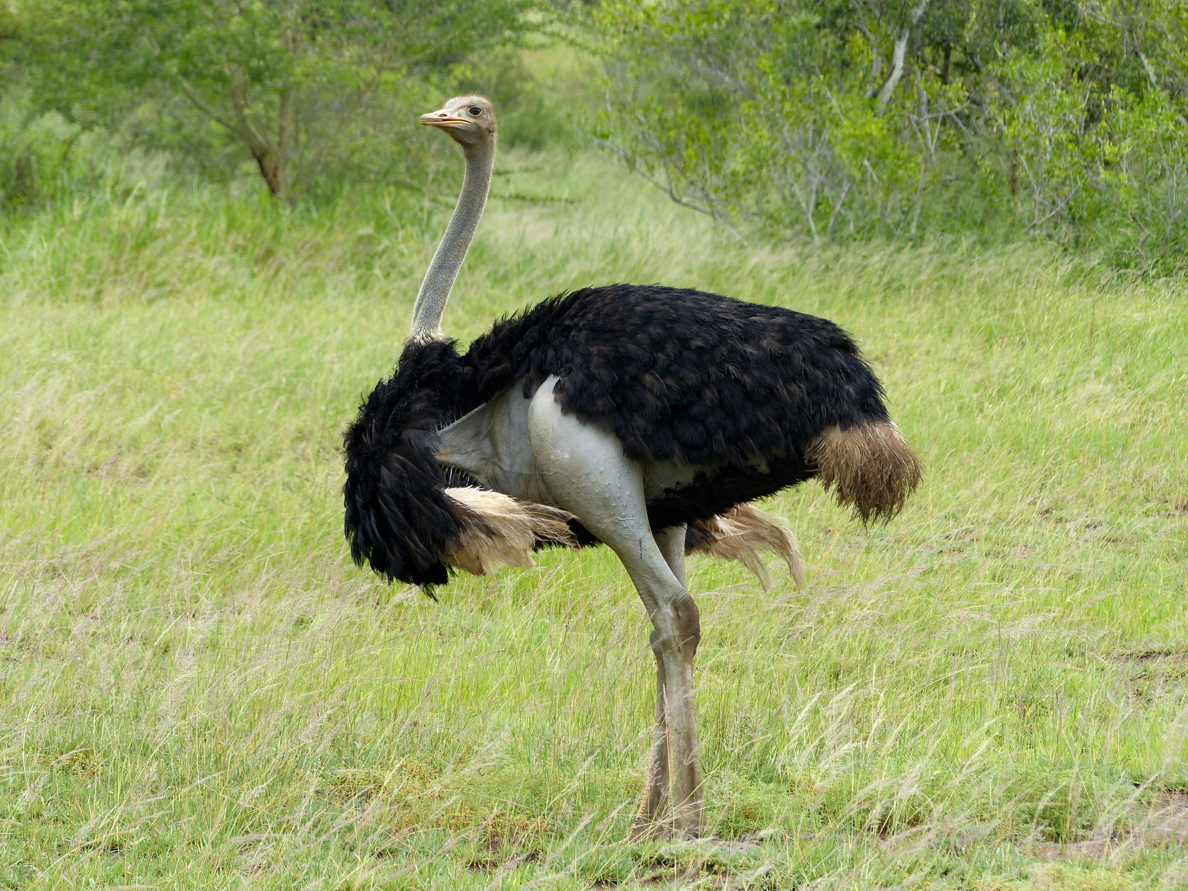 H10 Road North of Lower Sabie, Kruger NP, SOUTH AFRICA